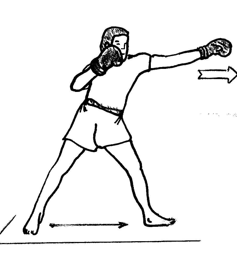 directlong0.jpg